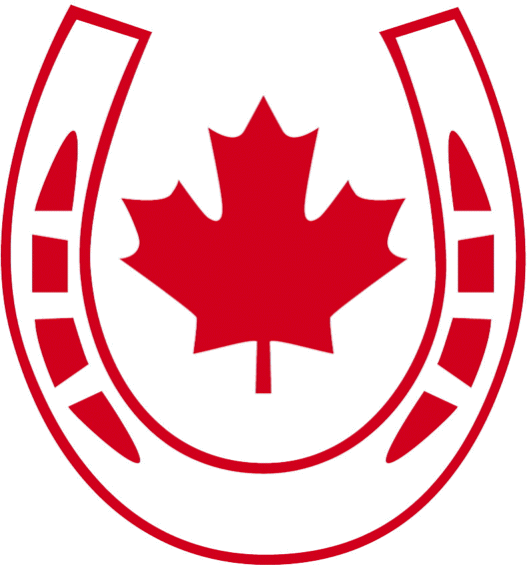 Logo created by Major General CC Mann for the Canadian Equestrian Society (CES) in 1948. Although the CES was dissolved two years later, Major General Mann established his logo as the universal symbol of Canadian equestrian athletes by placing it, and the other CES creations, in the public domain.